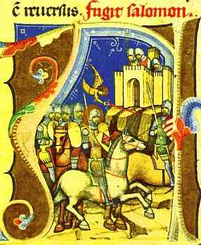 Solomon